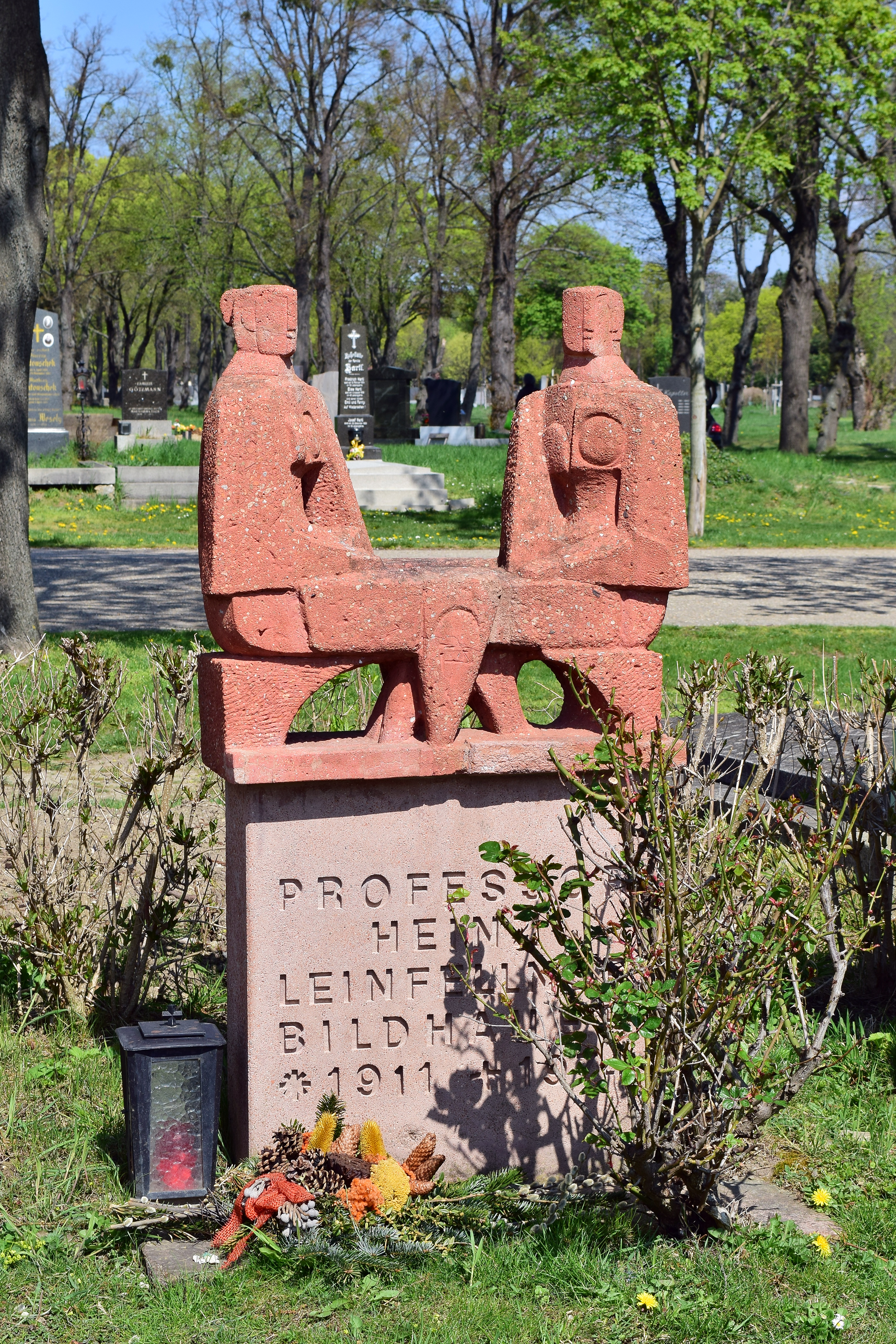 Grave of honor of Heinz Leinfellner at the Wiener Zentralfriedhof